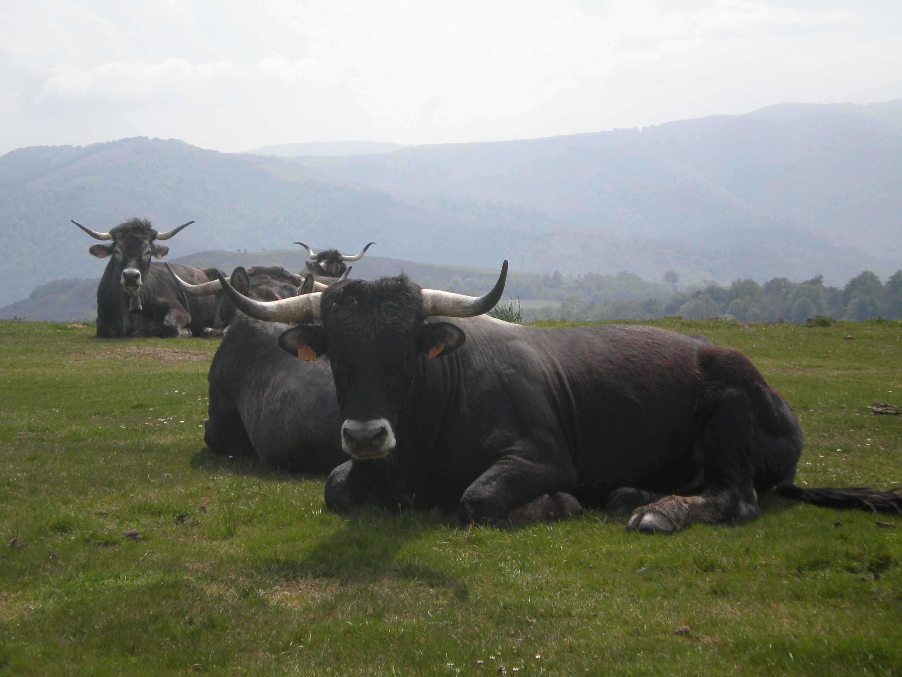 Tudanco bull and cows at the foot of Mozagro Peak in Cantabria. Montañés: Toru y vacas tudancos nel pernal del Picu Mozagru en Cantabria.